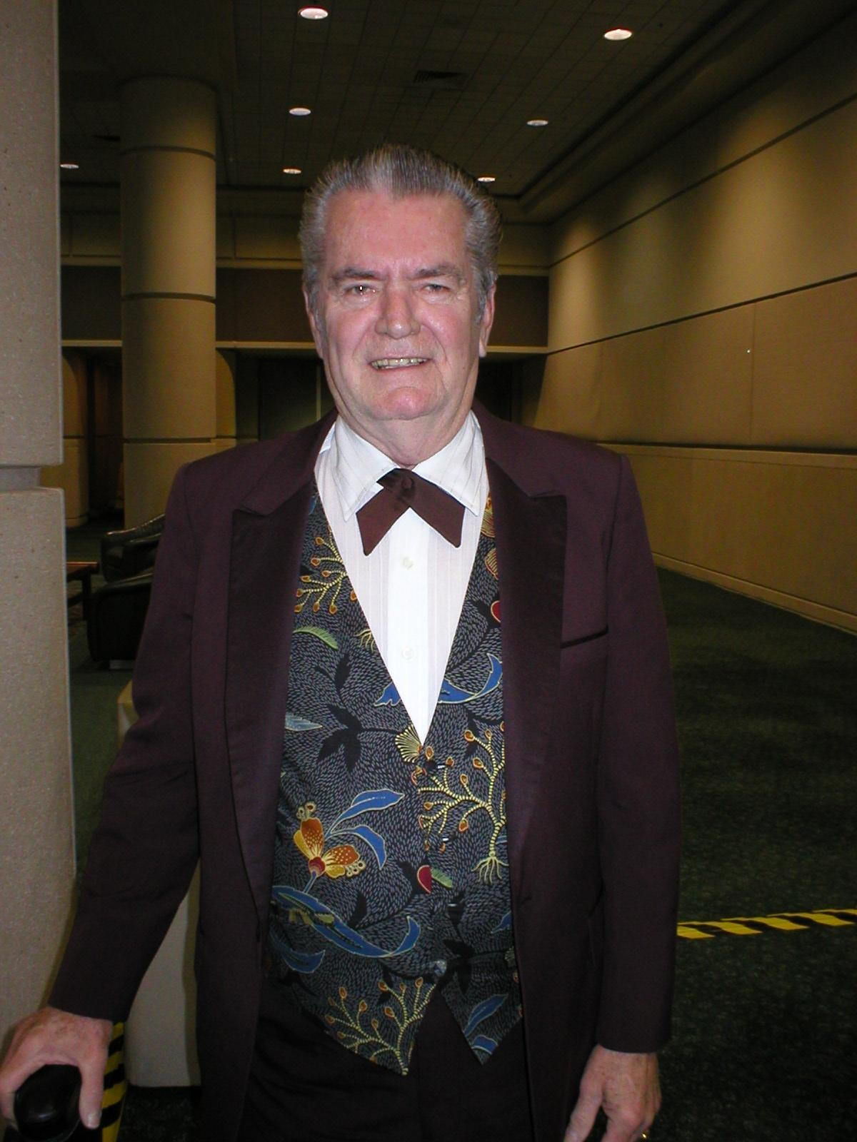 Dallas West Summary This is my own personal photograph that I took with my Olympus digital camera. There are no copyright infringements or restrictions and is available for public use.